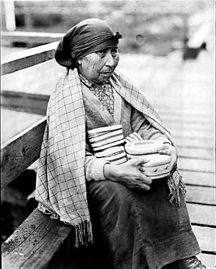 A Nootka woman with baskets for sale. A typewritten note on the back says: “Jessie Wilson...has been making and selling baskets to tourists for more years than she can remember. She is a familiar figure with her baskets at Nootka, historically famous outpost on the West Coast of Vancouver Island where the Spanish and British late in the 18th century signed a pact giving the British formal possession of the Pacific Northwest by virtue of Capt. Cook's explorations.”